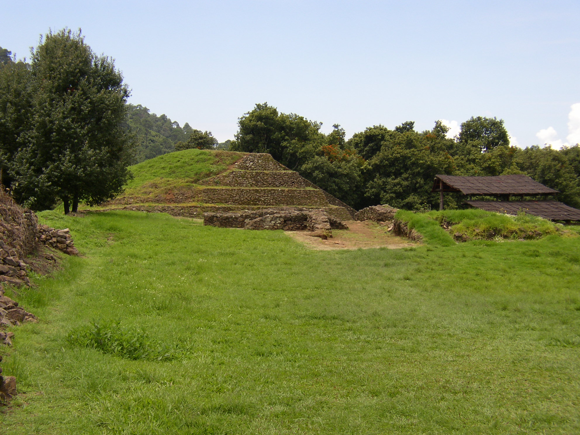 The pyramid at Tingambato.